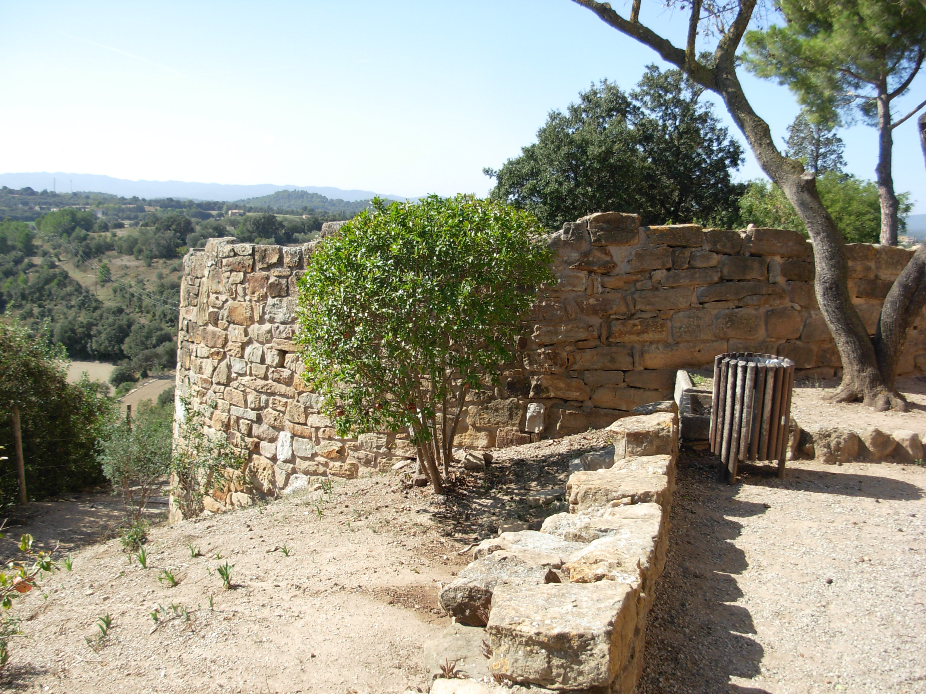 Wall and tower of the carolingian castle of Sant Andreu d'Ullastret